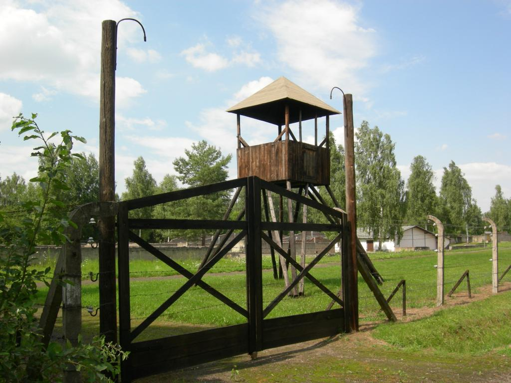 Former russian prisoners camp Stalag 318/VIII F of Lamsdorf.